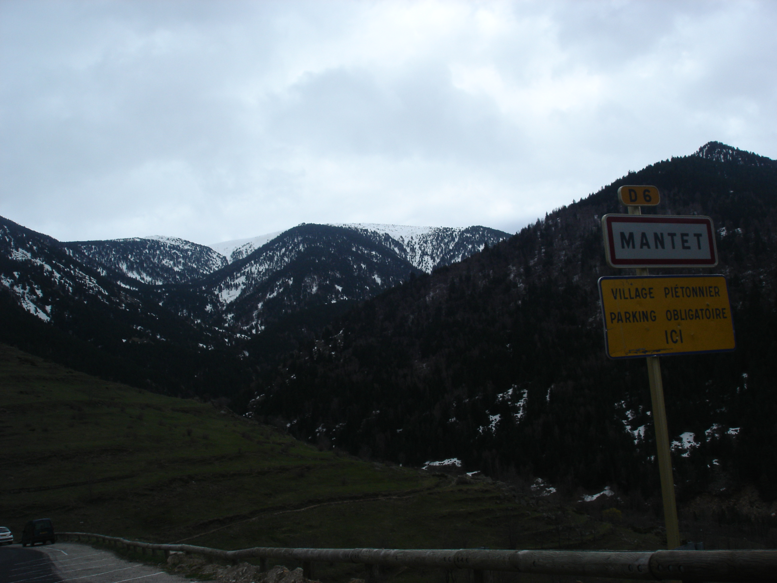 Sign of the village Mantet in the Pyrenees.